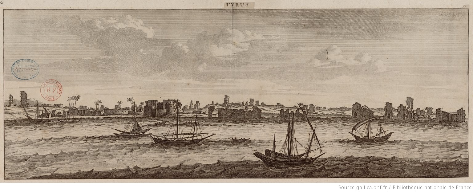 Illustration of the ruins of Tyre in the 17th century by the Dutch traveller and artist Cornelis De Bruyn (1652?-1727?)